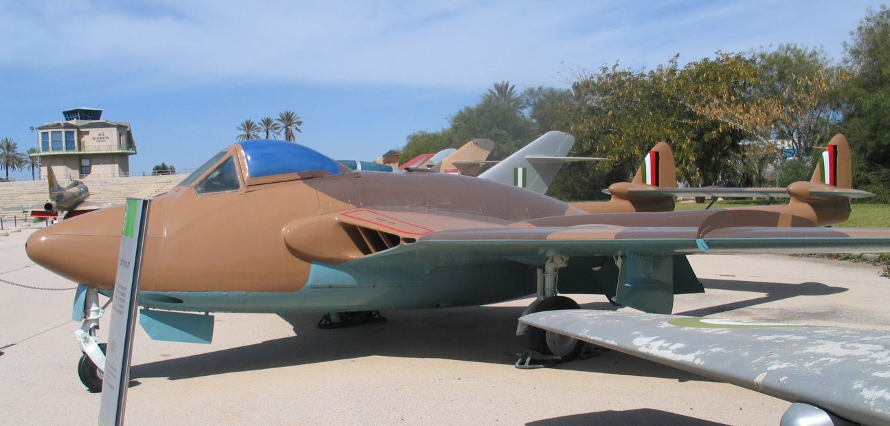 Description: De Havilland Venom at Muzeyon Heyl ha-Avir, Hatzerim airbase, Israel. 2006. Source: Photo by me, User:Bukvoed.